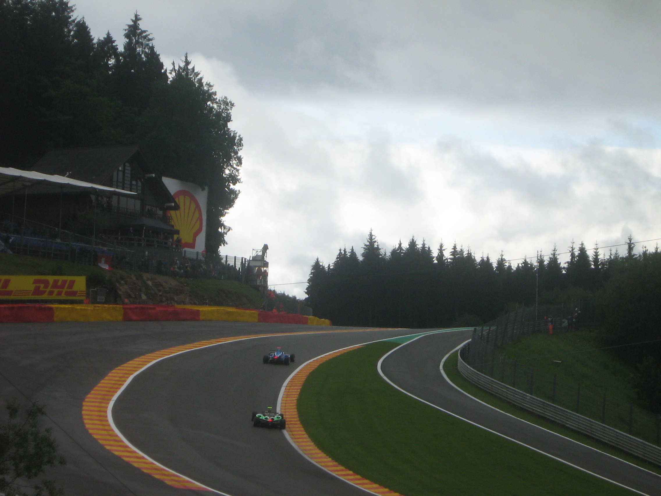 GP3 Cars going through Eau Rouge, 2011